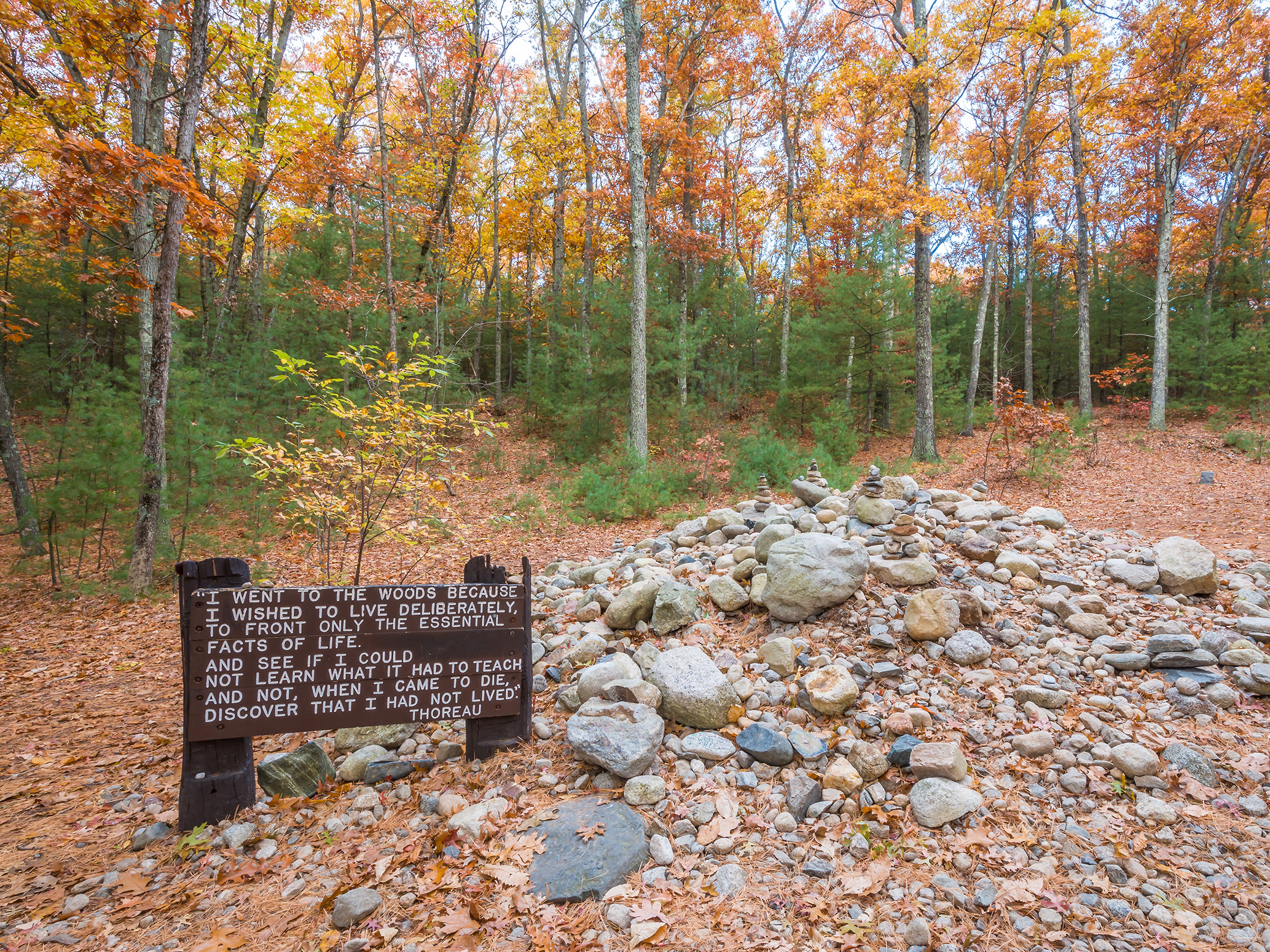 Walden Pond is well-known as the place where Henry David Thoreau wrote his transcendentalist novel 'Walden", a book that truly changed the way people think.